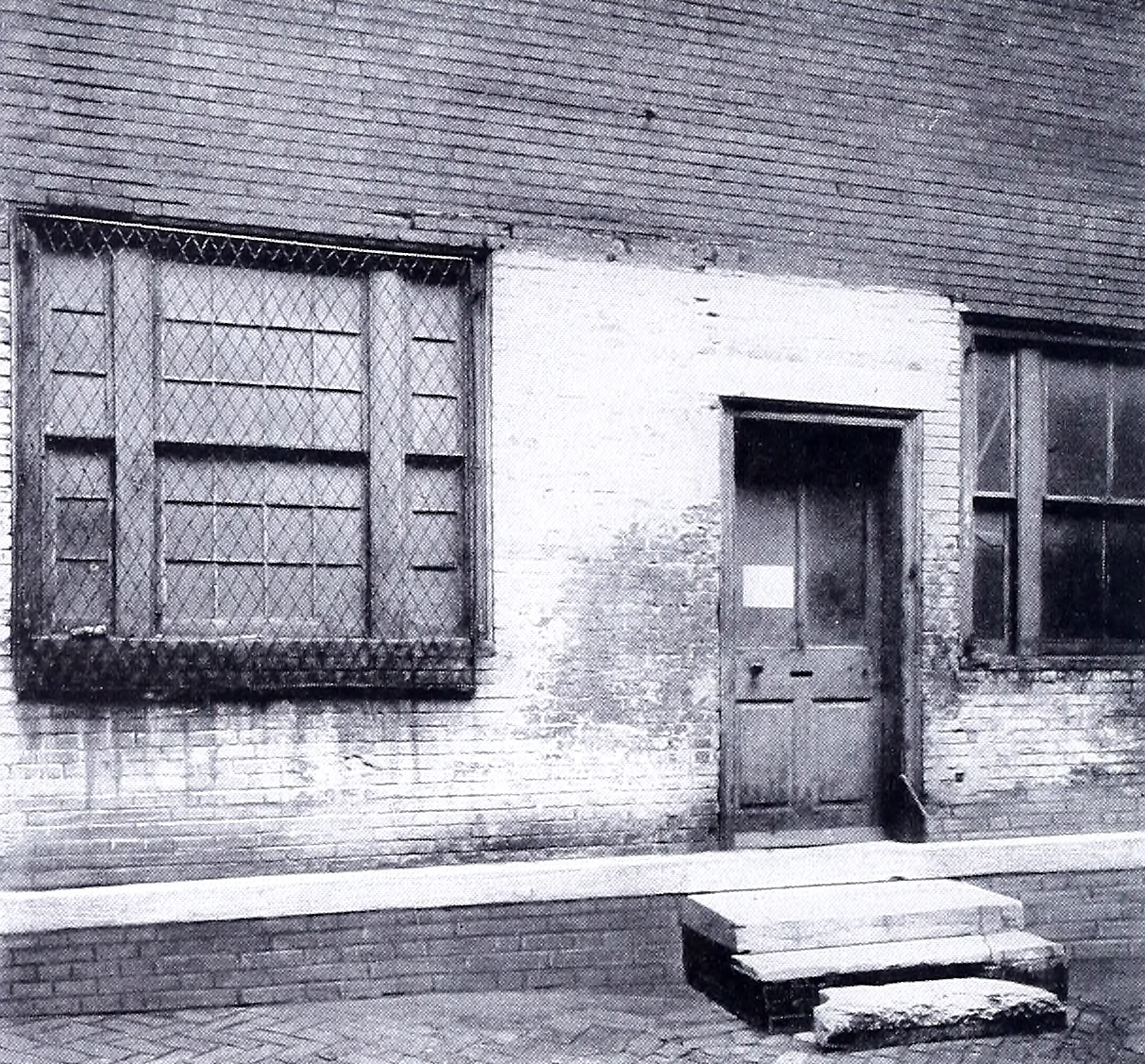 First United States Mint (1904) from Philadelphia: The Birthplace of the Nation, The Pivot of Industry, The City of Homes. Published by Shelden Company, Inc. Philadelphia (1904) (